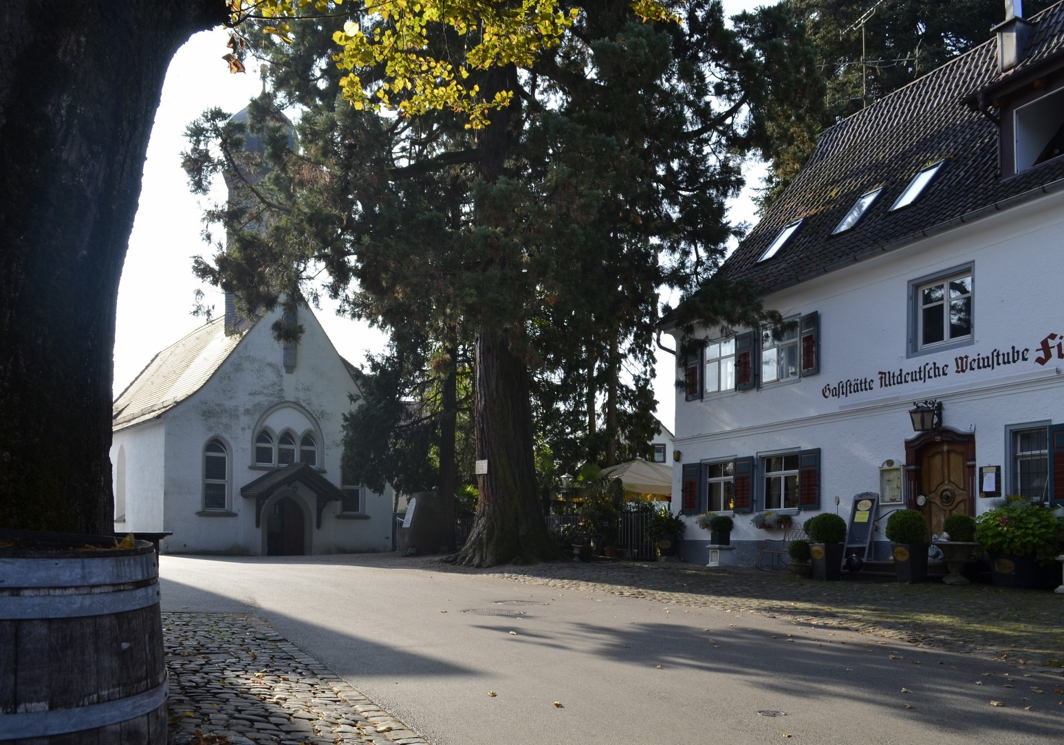 Chapel-Square, the old Center of Nonnenhorn. In the background the St. Jacobus-Chapel from the Late Gothics.